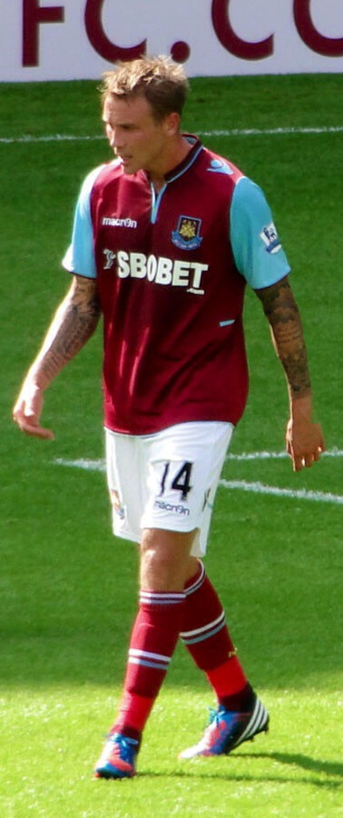 Matt Taylor playing for West Ham United at The Boleyn Ground in The Premier League.